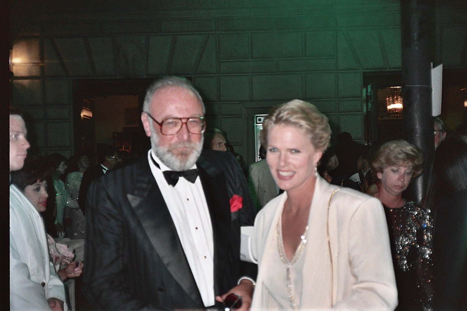 At the Governor's Ball following the 1991 Emmy Awards. NOTE: Permission granted to copy, publish, broadcast or post any of my photos, but please credit "photo by Alan Light" if you can. Thanks. Scanned from the original 35MM film negative.